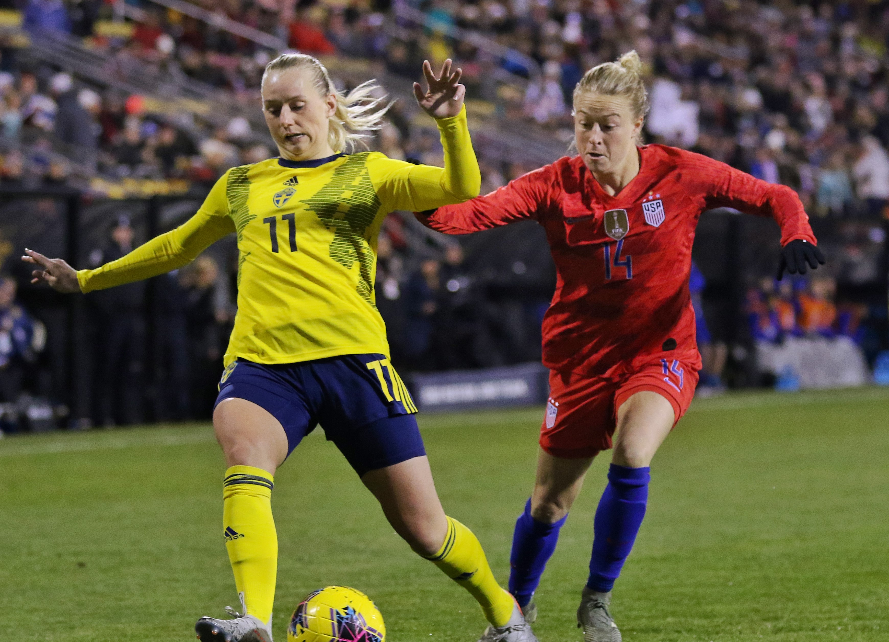 Emily Sonnett & Stina Blackstenius on a match between the United States and Sweden on November 7, 2019.